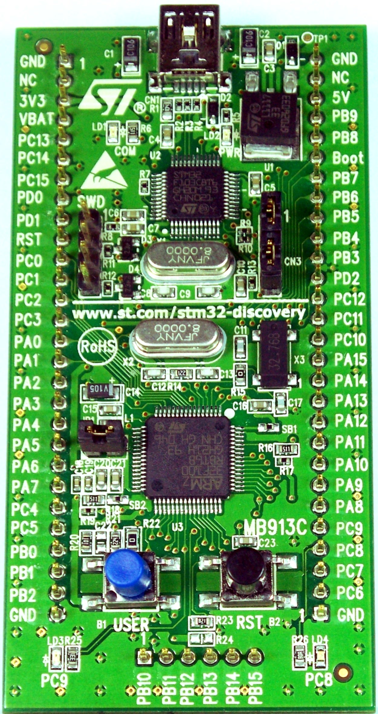 STM32 Value Line Discovery development board